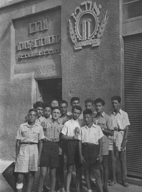 ORT students from Bulgaria in their visit at the ORT Jafa school